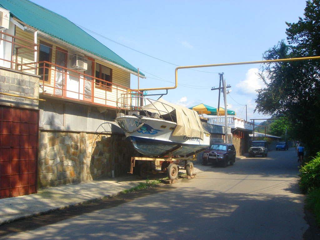 Dagomys, Sochi, Leningradskaya street